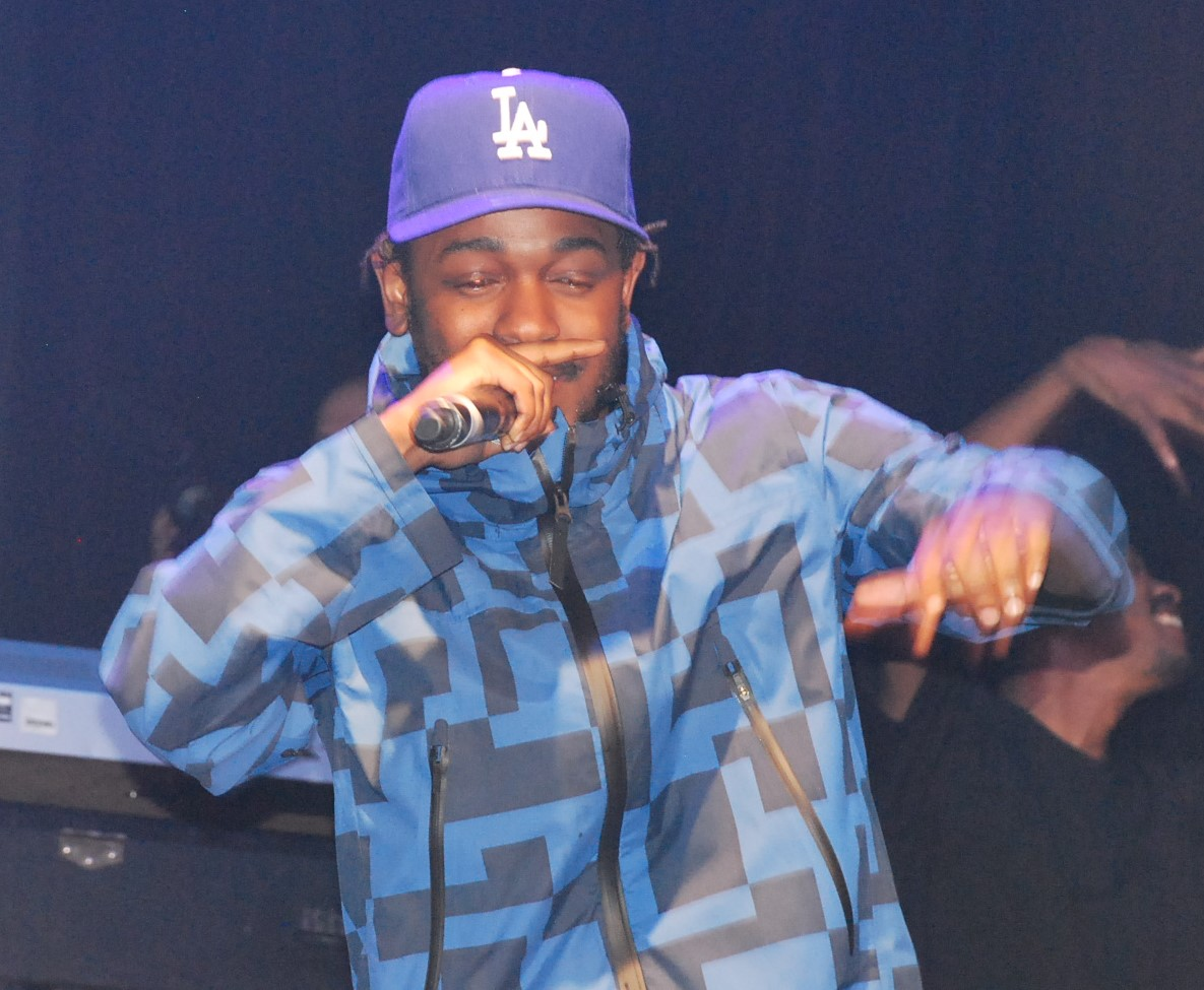 Lamar performing in 2015 at the Hollywood Palladium.